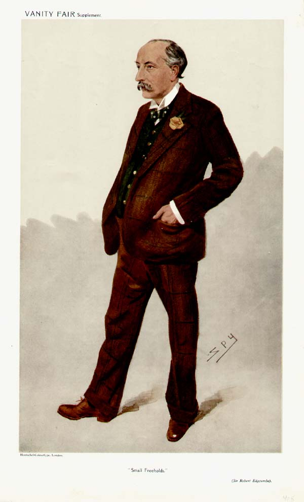 Men of the Day No.1104: Caricature of Sir Edward Robert Pearce Edgcumbe LLD DL JP (1851-1929), Pioneer of the small holdings movement. [1]. Caption reads: "Small freeholds"